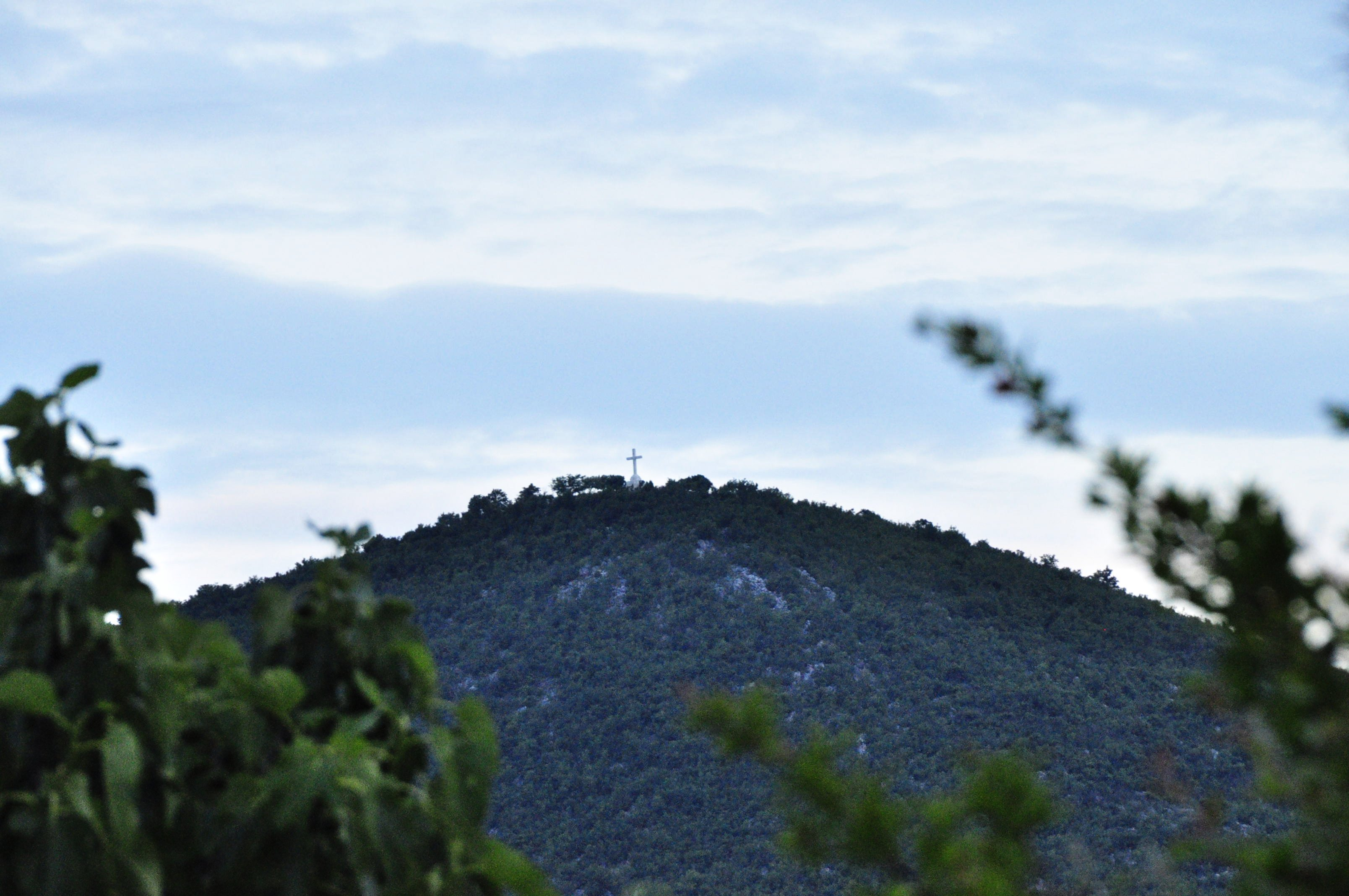 medjugorje bosnia herzegovina apparitions virgin mary roman catholic pension pansion porta travel creative commons cc gnuckx panoramio flickr map geotag wiki wikipedia